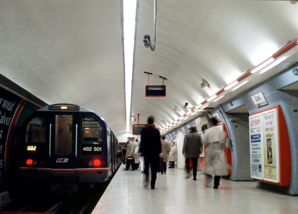 British Railways Class 482 in Network SouthEast livery at Bank station. Photographed by SP Smiler